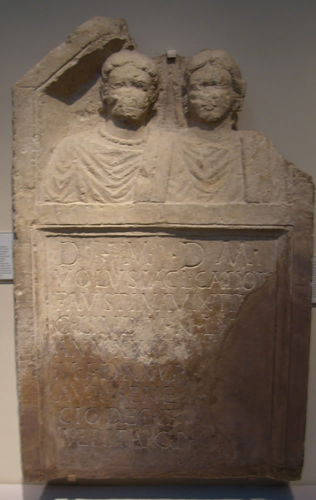 Tombstone of Volusia Faustina, wife of Aurelius Senecio, decurion of Lincoln; British Museum, found at Lincoln.RIB 1, 250: D(is) M(anibus)/ Volusia/ Faustina/ c(ivis) Lind(ensis) v(ixit)/ ann(os) XXVI/ m(ensem) I d(ies) XXVI/ Aur(elius) Sene/cio dec(urio) ob/ merita c(oniugi) p(osuit)// D(is) M(anibus) / Cl(audia) Catiotui f(ilia?)/ vix{t}(i)t a[n]/n(os) LX[---]